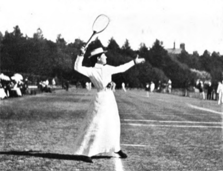 Muriel Robb, Wimbledon champion in 1902, making a service.